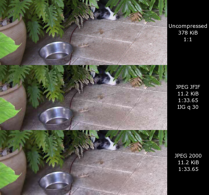 This image is a PNG for a comparison between JPEG (plain, JFIF) and JPEG 2000. I (Shlomi Tal) cut a chunk of the photo (576×224 out of the original 1024×768, to be exact) with the GIMP, then saved to PPM. I then generated a JPEG version of it with a quality of 30 (on the IJG scale), yielding a file size of 11,502 bytes, computed as approximately 1/33.65 of the size of the uncompressed image. After that, I generated a JPEG 2000 version with a compression ratio of 1:33.65, yielding a size of 11,406 bytes. Finally I converted both images to PPM, created the captions (144×224 each) for the three images, stitched them all into one image and converted them to PNG with 0.45455 gamma. With pngcrush I added the text chunks and optimised the file. I chose quality 30 because compression artifacts are guaranteed at that compression level. The reference uncompressed image is from my camera in lossless mode. The PNG is not interlaced, for I deem interlacing fit only for critical images (such as image maps for navigation) or previewing (which on Wikimedia is taken care of by the thumbnails). Addendum by BenRG: The original JPEG 2000 image appears to have been created by JasPer with rate=0.03. Kakadu produces a considerably different output at the same file size, with more blurring of prominent edges (e.g. the leaf near the bowl) and less blurring of subtler details. The original JPEG image is IJG quality 30 (with 2×2 chroma subsampling), as advertised, but it was apparently (based on the size) produced with the default Huffman tables instead of optimized tables. With optimized tables (cjpeg -q 30 -opt) the file size is significantly smaller (10,494 bytes). With arithmetic coding (which JPEG 2000 always uses), the file size is 9633 bytes, which is less than 85% of the size of the JPEG 2000 file with no change in quality.